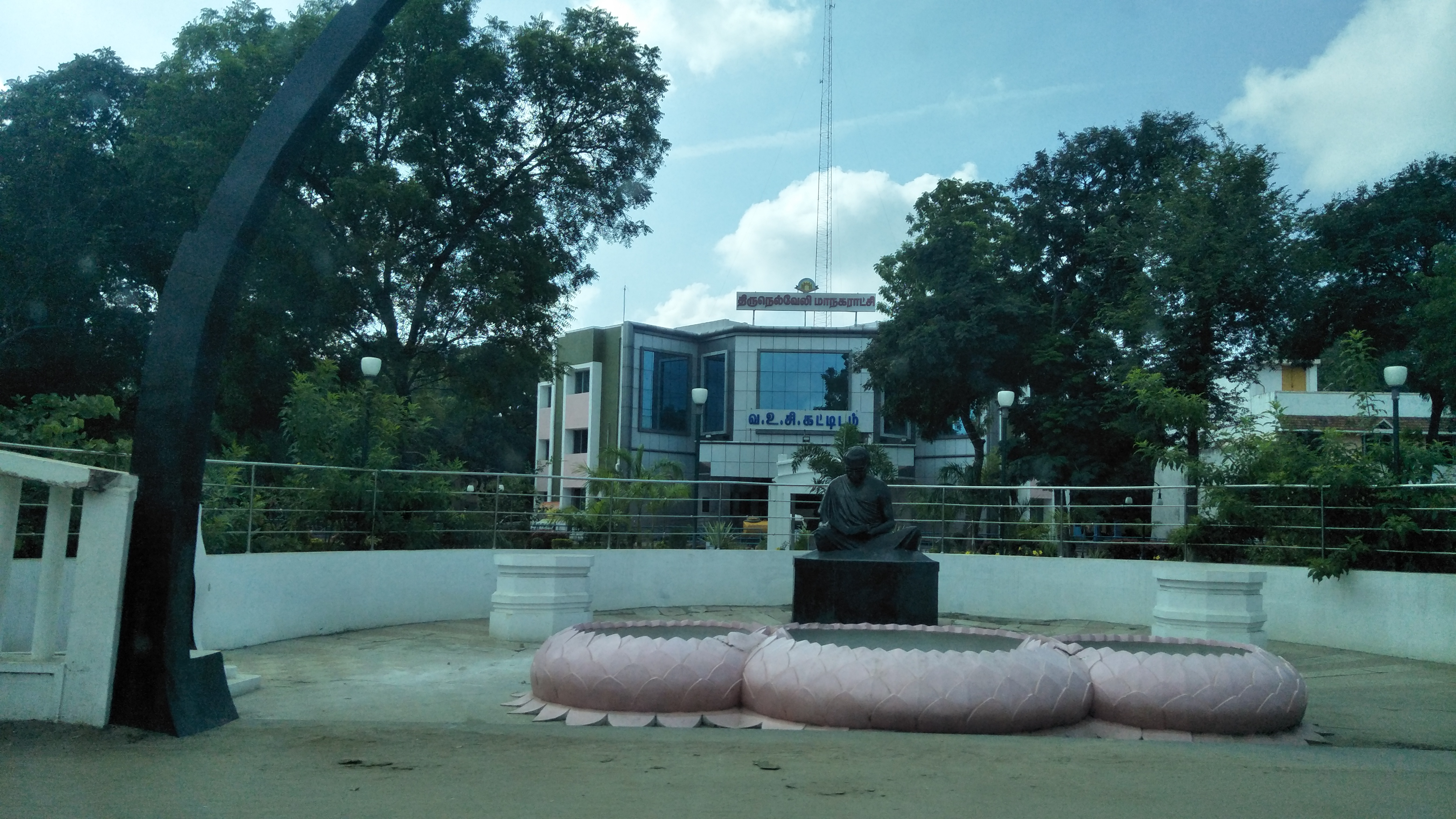 VOC